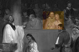 A zoom of the painting in the Capitol Rotunda